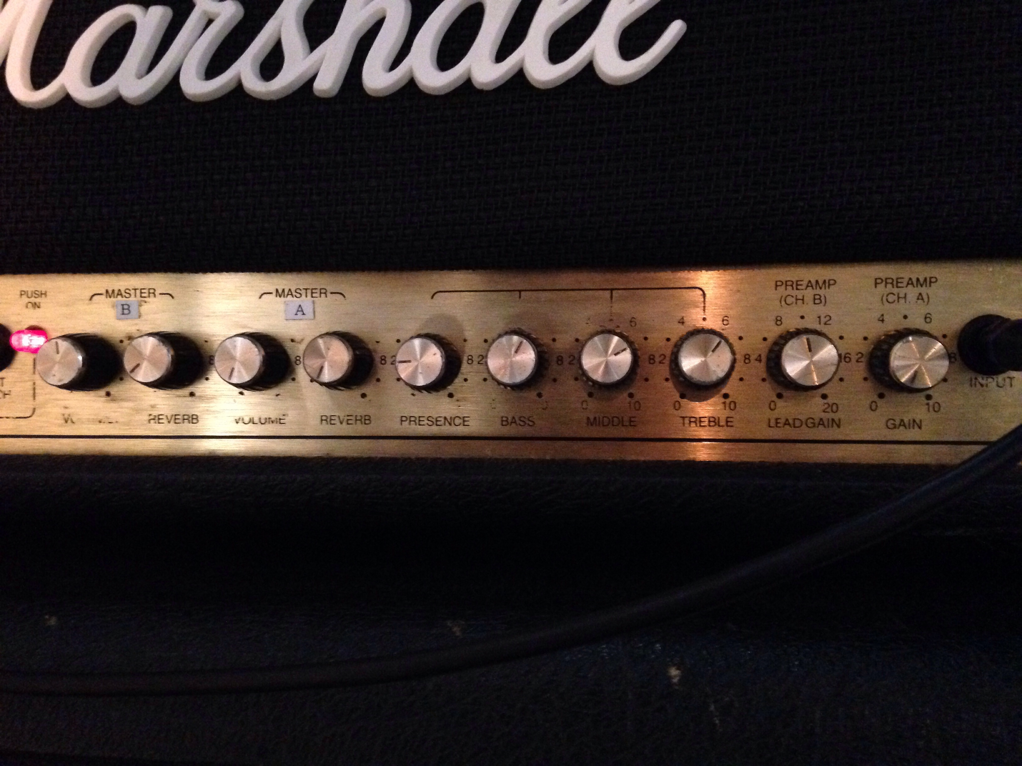 Guitar Amp Setting